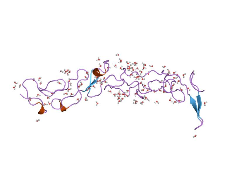 Cartoon representation of the molecular structure of protein registered with 1klo code.